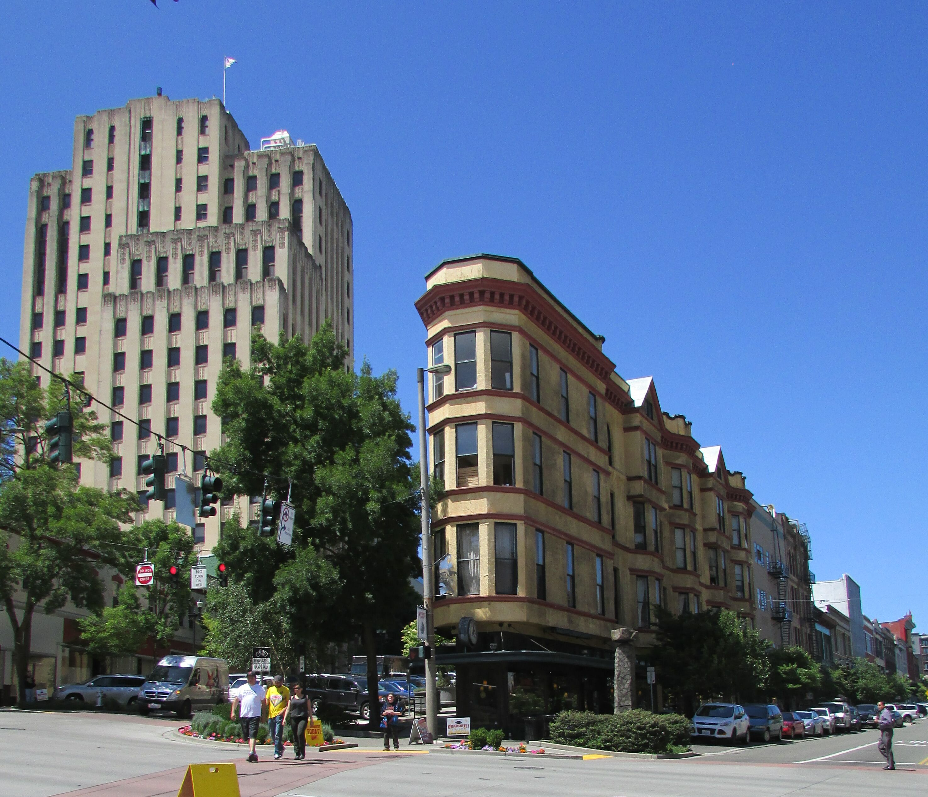 Old Bostwick Hotel, Tacoma, Washington. City Hall (the former Rhodes Medical Arts Building) in background.